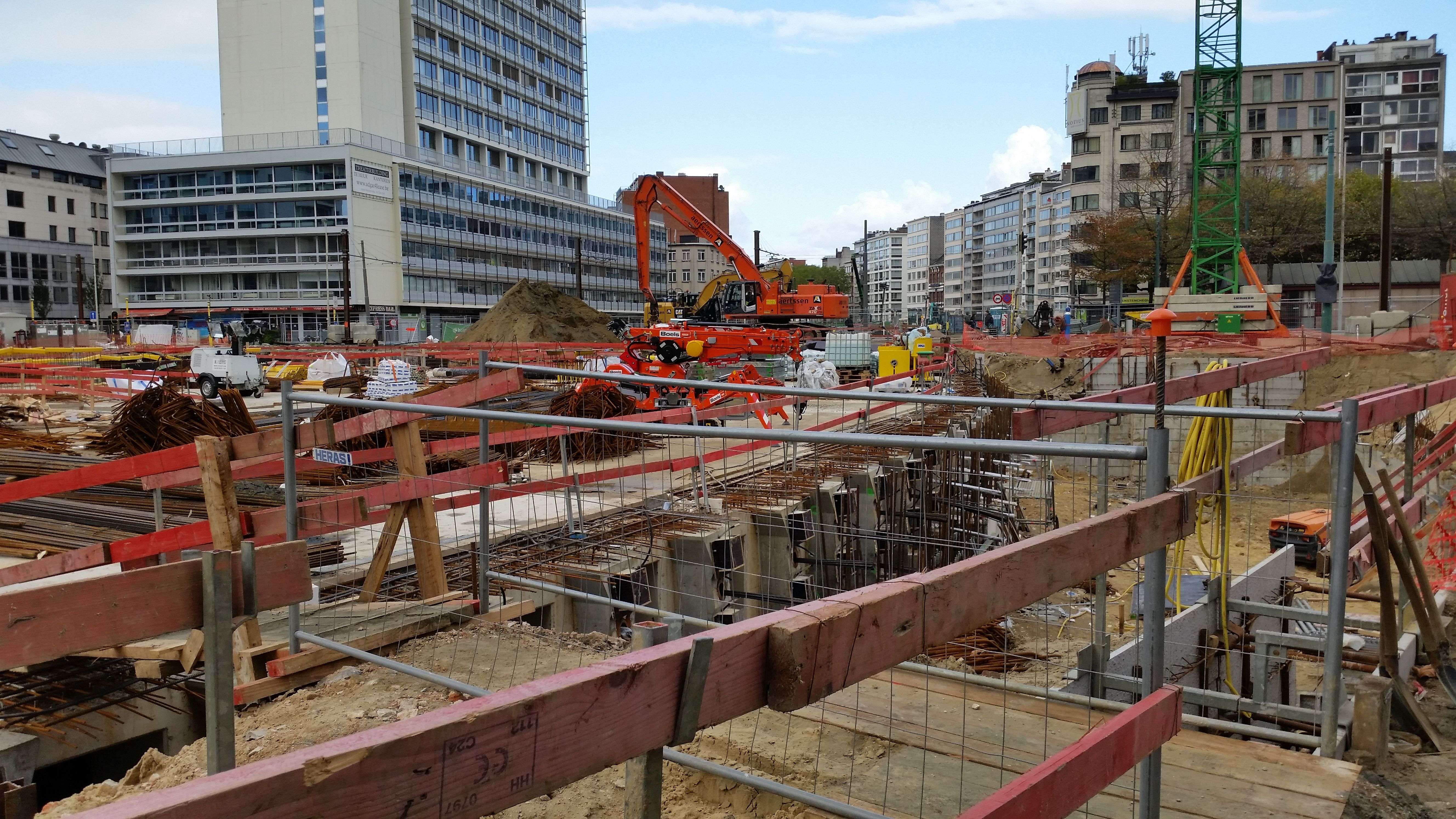 Redevelopment works of Opera Square in Antwerp, Belgium, within the frame of Noorderlijn project. Picture taken on October 29, 2017.